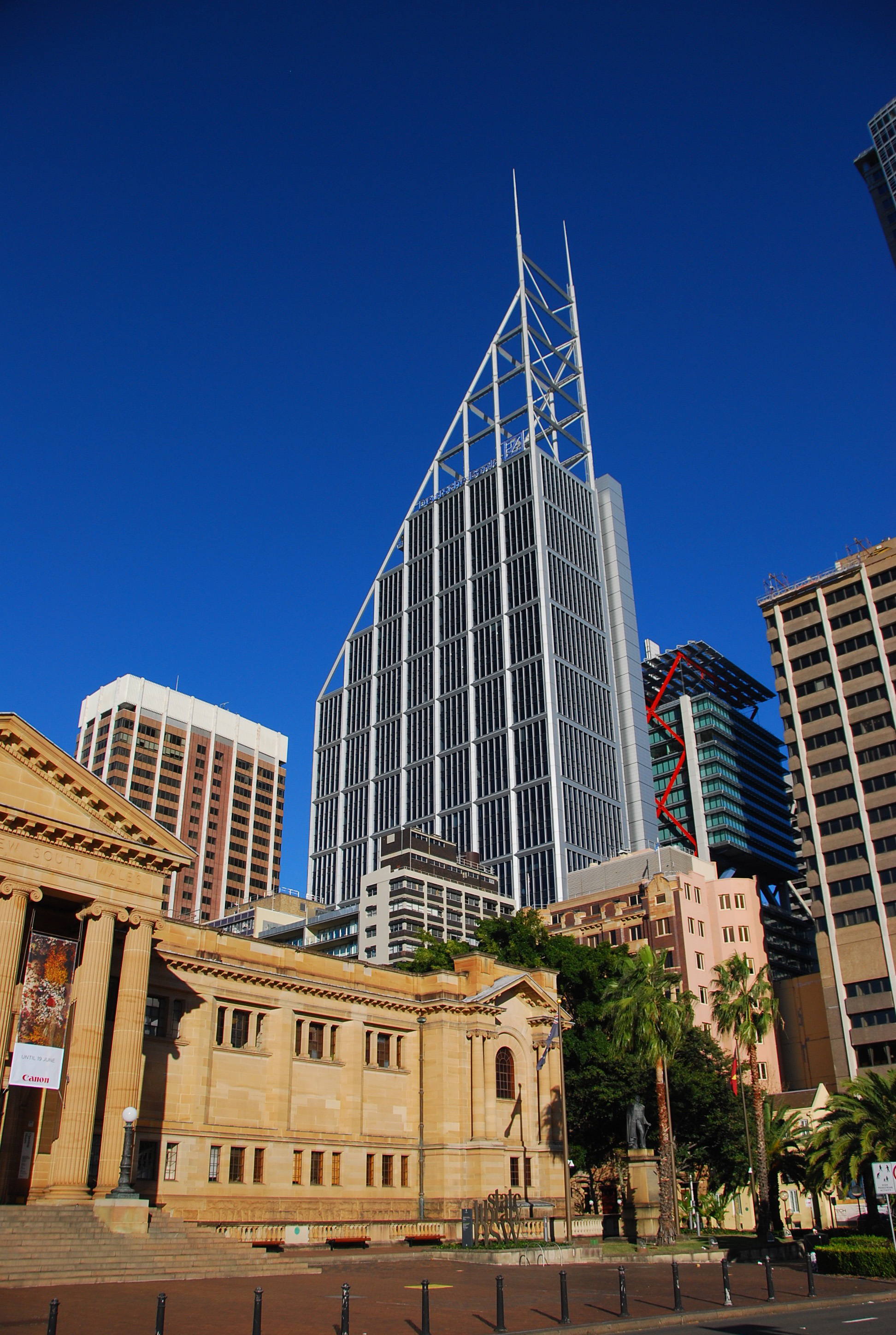 Architect: Norman Foster and Partners